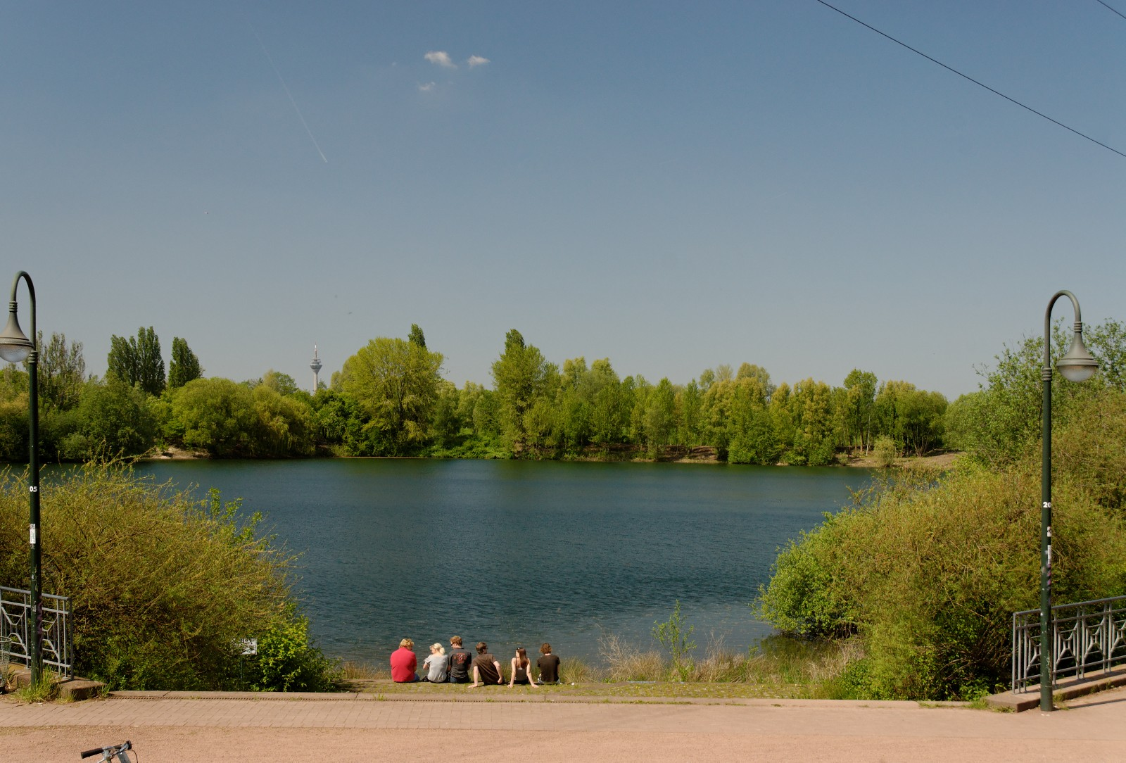 Deichsee in Düsseldorf-Wersten, Germany